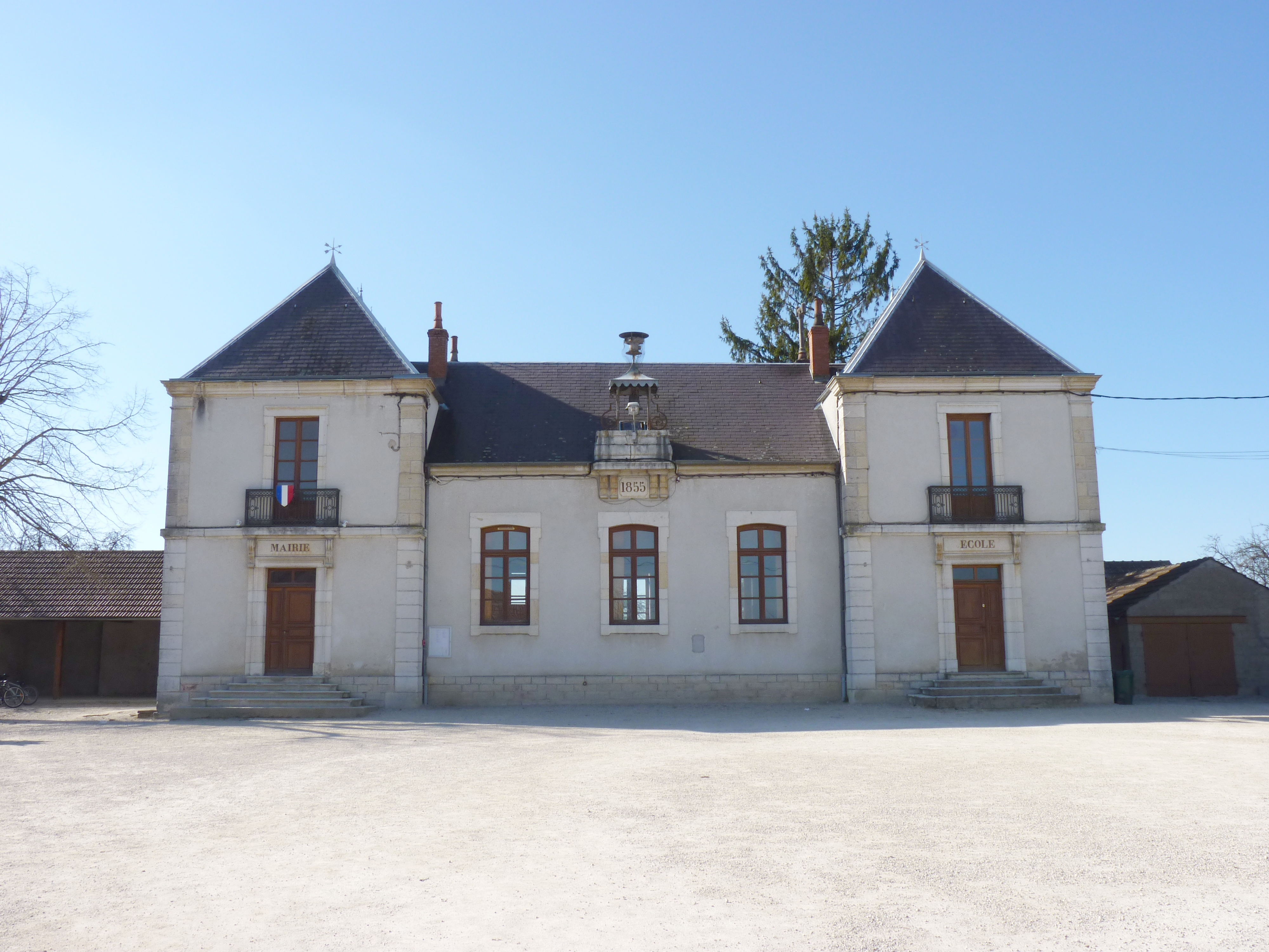 Town hall and school in Aubigny-en-Plaine, Côte-d'Or, Burgundy, France